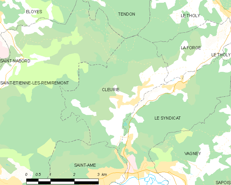 Map of French municipality Cleurie